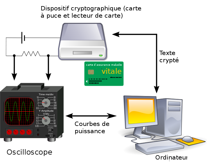 French translation of differential power analysis.